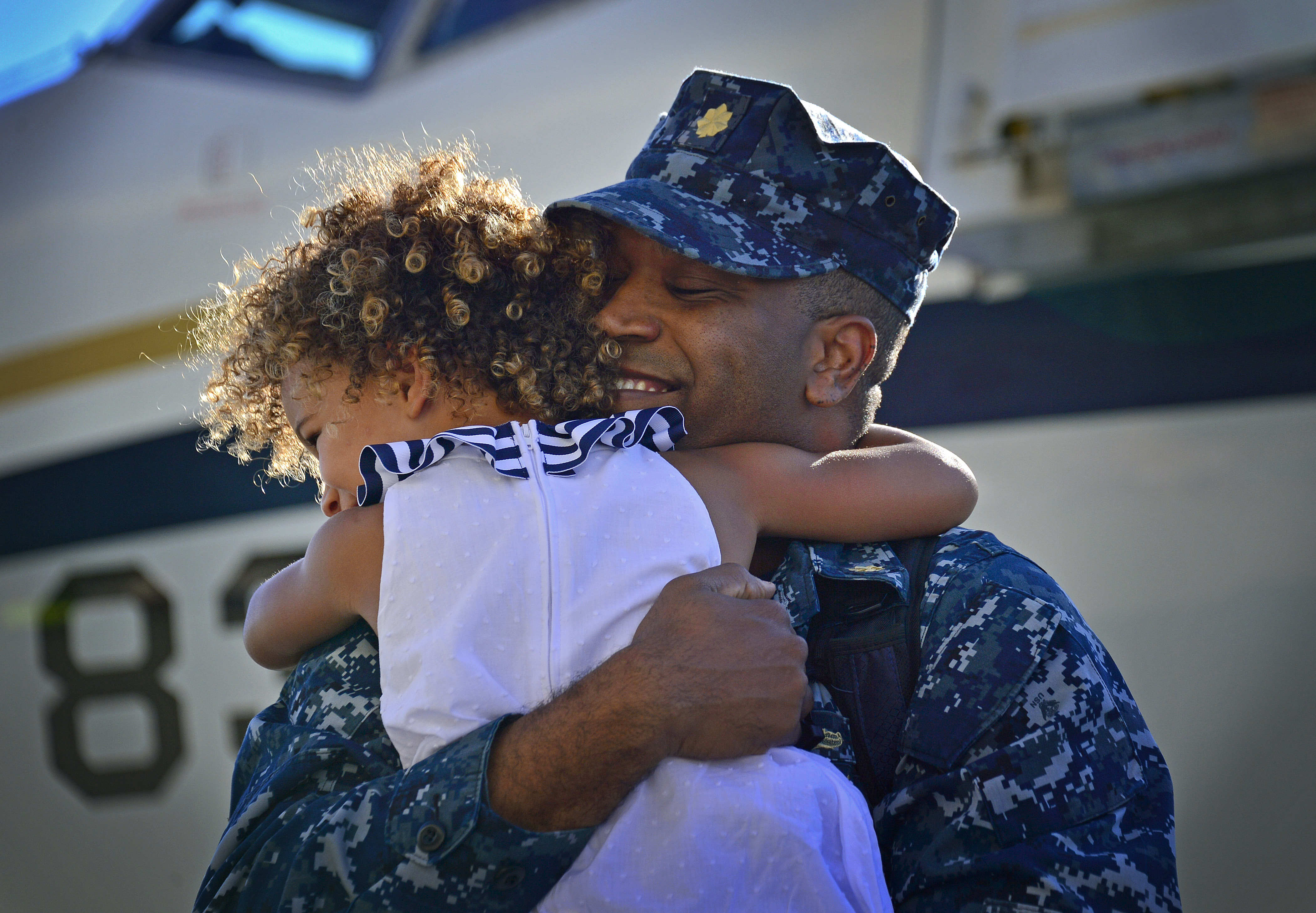 SAN DIEGO (Aug. 7, 2013) Lt. Cmdr. Charles Harris, Gold crew operations officer for the littoral combat ship USS Freedom (LCS 1), embraces his daughter during a homecoming celebration at Naval Air Station North Island. The ship's Gold crew has been relieved by the ship's Blue crew midway through the ship’s maiden deployment to the Asia-Pacific region. (U.S. Navy photo by Mass Communication Specialist 2nd Class Daniel M. Young/Released) 130807-N-NI474-165 Join the conversation navylive.dodlive.mil